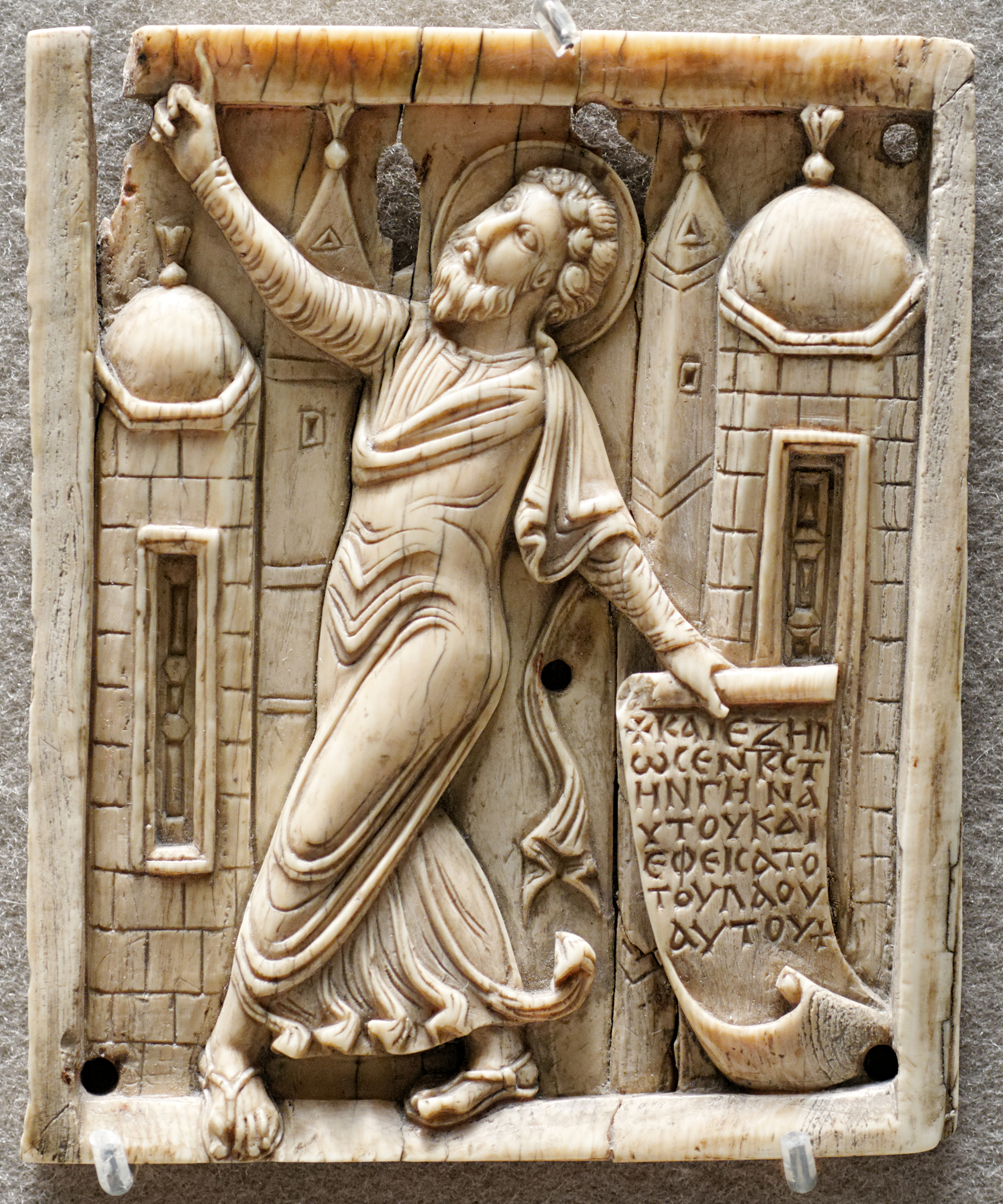 Plaque with the prophet Joel. Syria or Palestine?